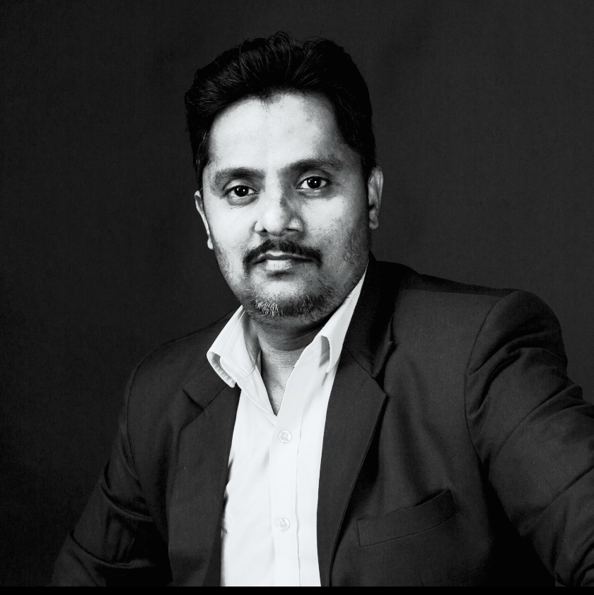 Rohit Saxena at TV24 Office as CEO in 2018